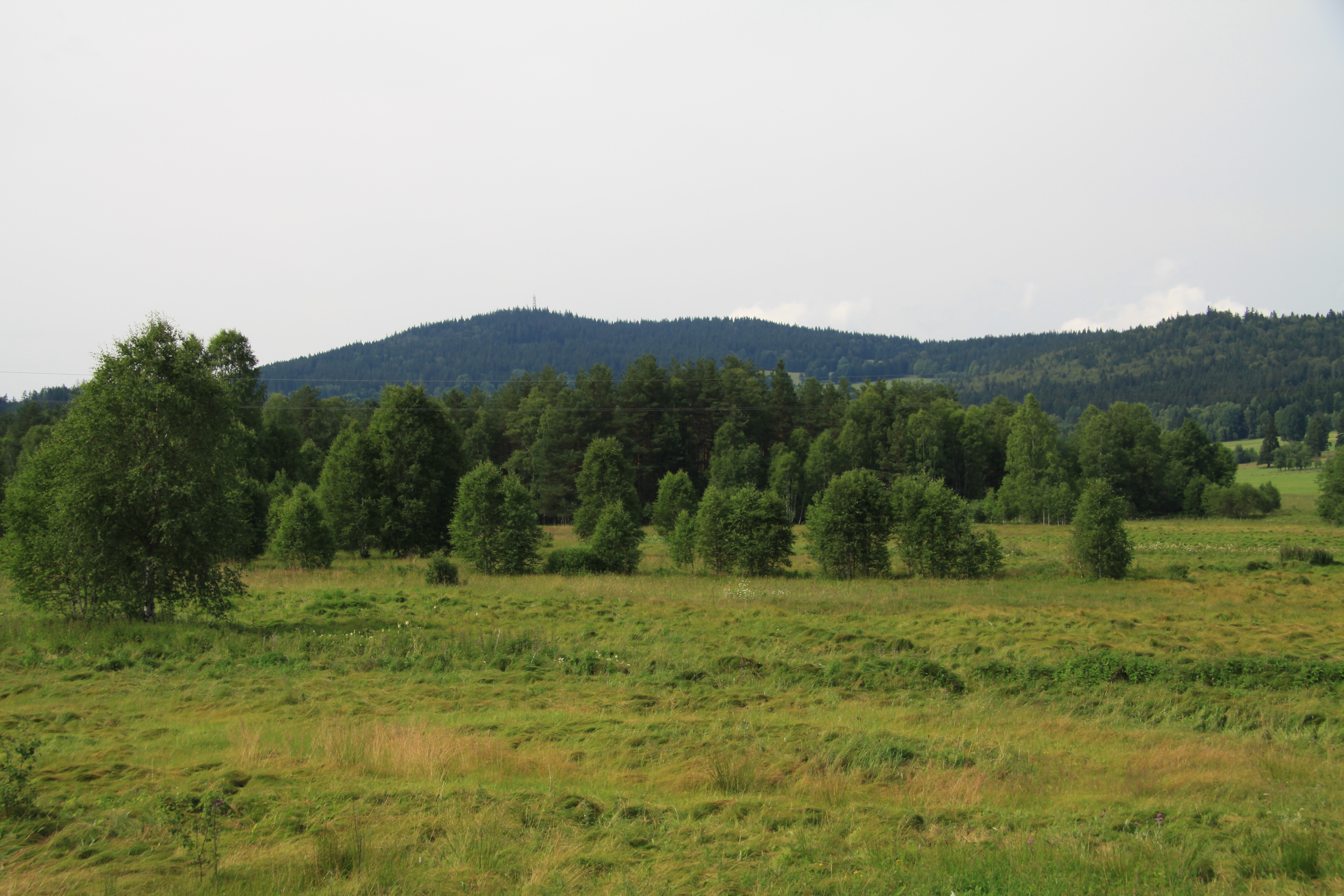 Nature reserve Hliniště in Prachatice District, Czech Republic - Google Maps - Google Earth